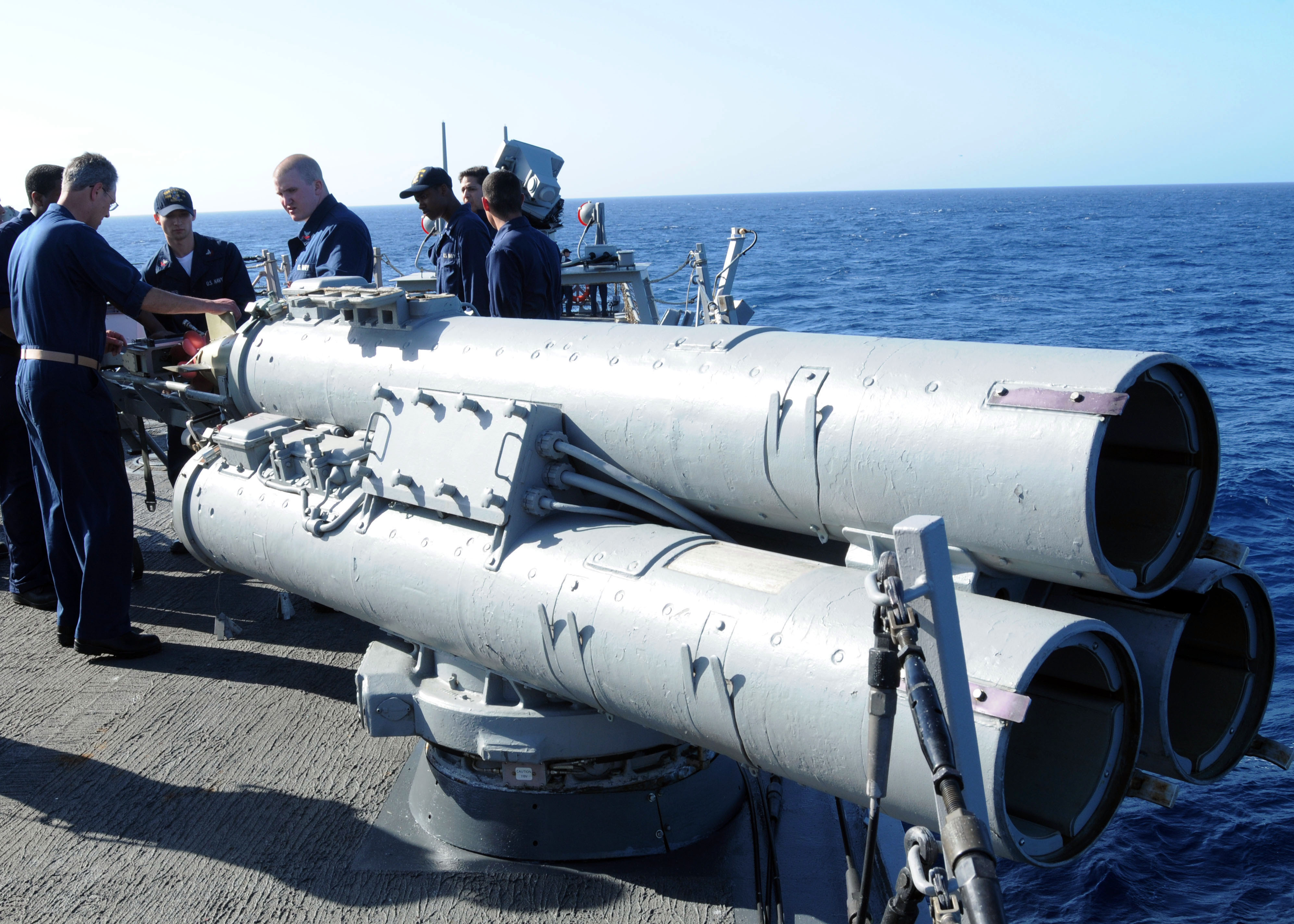 Crewmembers aboard the guided-missile destroyer USS Porter (DDG 78) load a Mark 46 recoverable exercise torpedo into a Mark 32 surface vessel torpedo tube. Porter is participating in a group sail activity in the Atlantic Ocean to prepare for its role with Destroyer Squadron (DESRON) 24 in the upcoming Joint Warrior exercise.